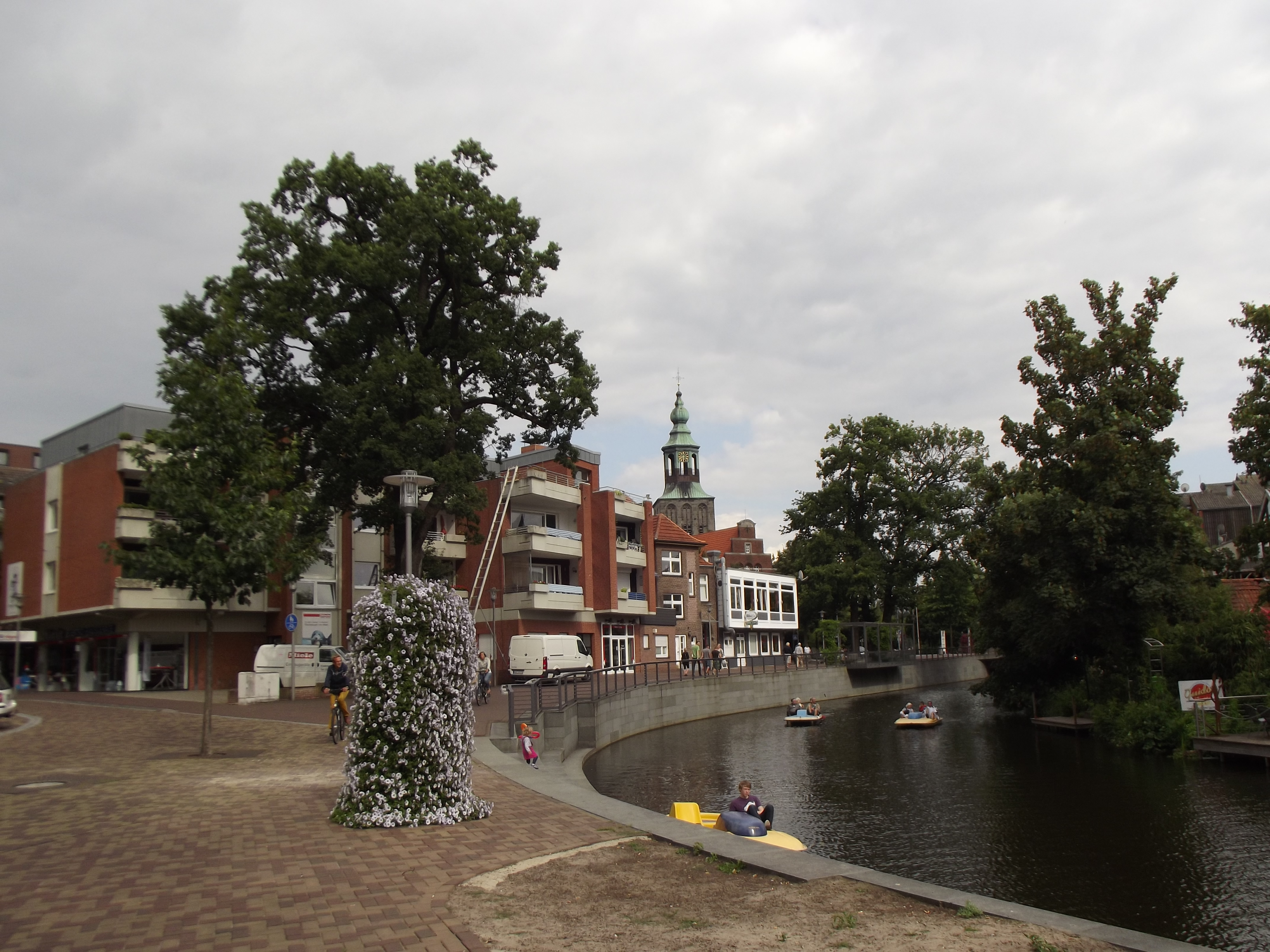 The pic shows how the centre of "Wasserstadt Nordhorn" ("Watertown Nordhorn") can be explored by boat